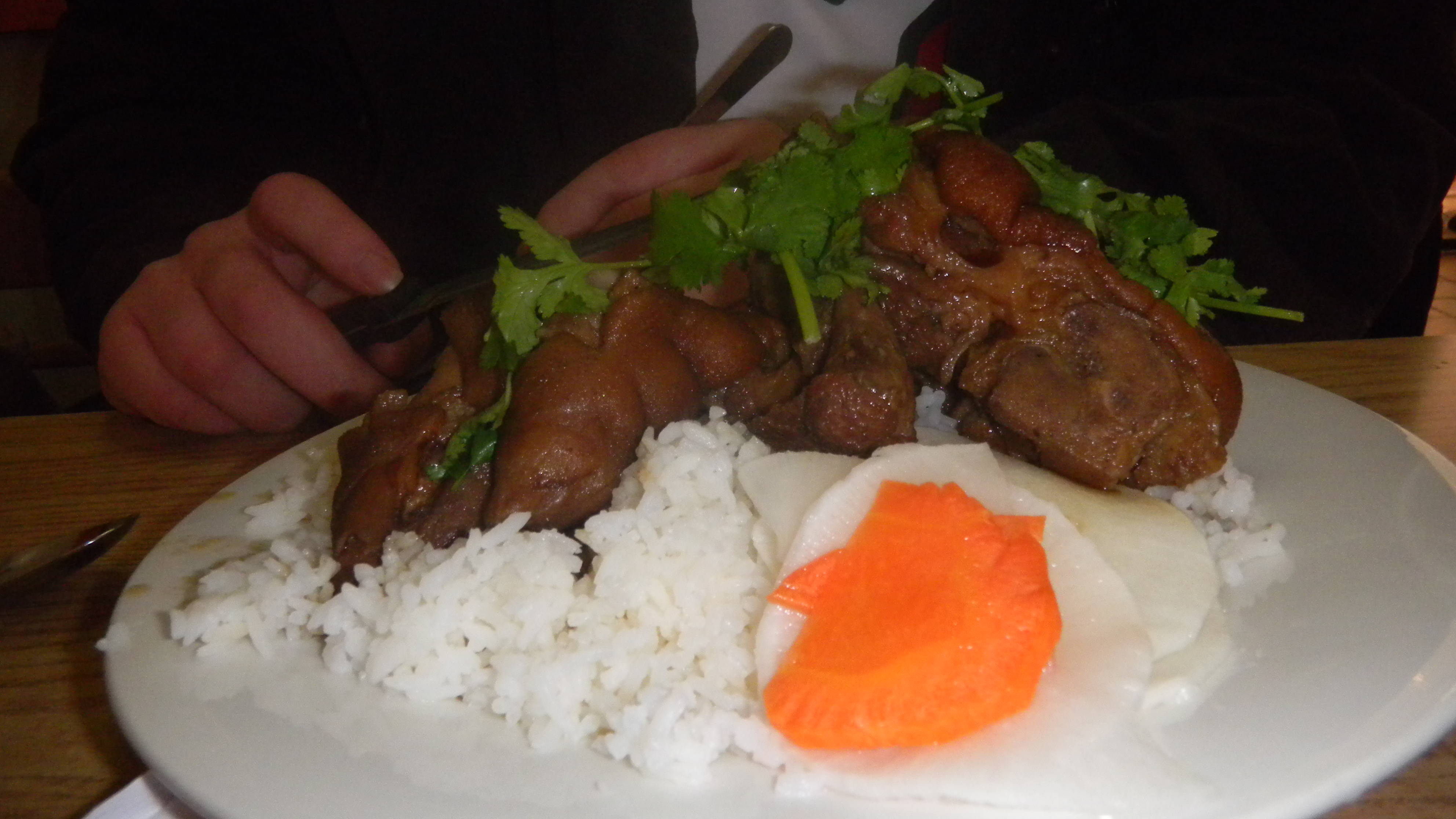 A dish of pig's feet I had in Chinatown during the Chinese New Year. Wasn't the Korean recipe.